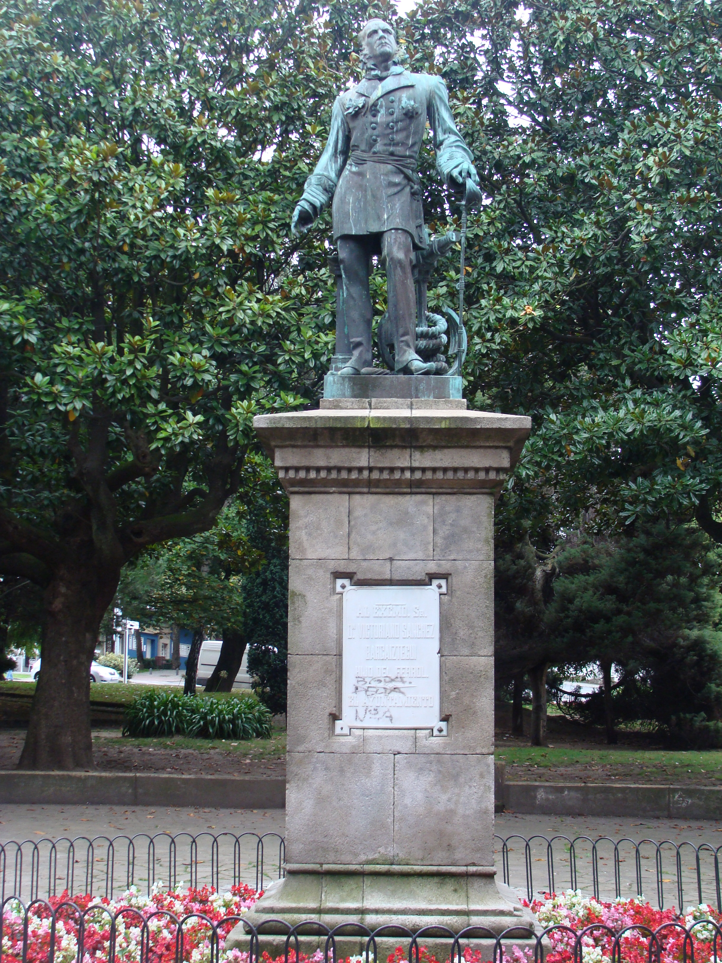 Statue of Victoriano Sánchez Barcáiztegui in Ferrol, Corunna, Galicia, Spain